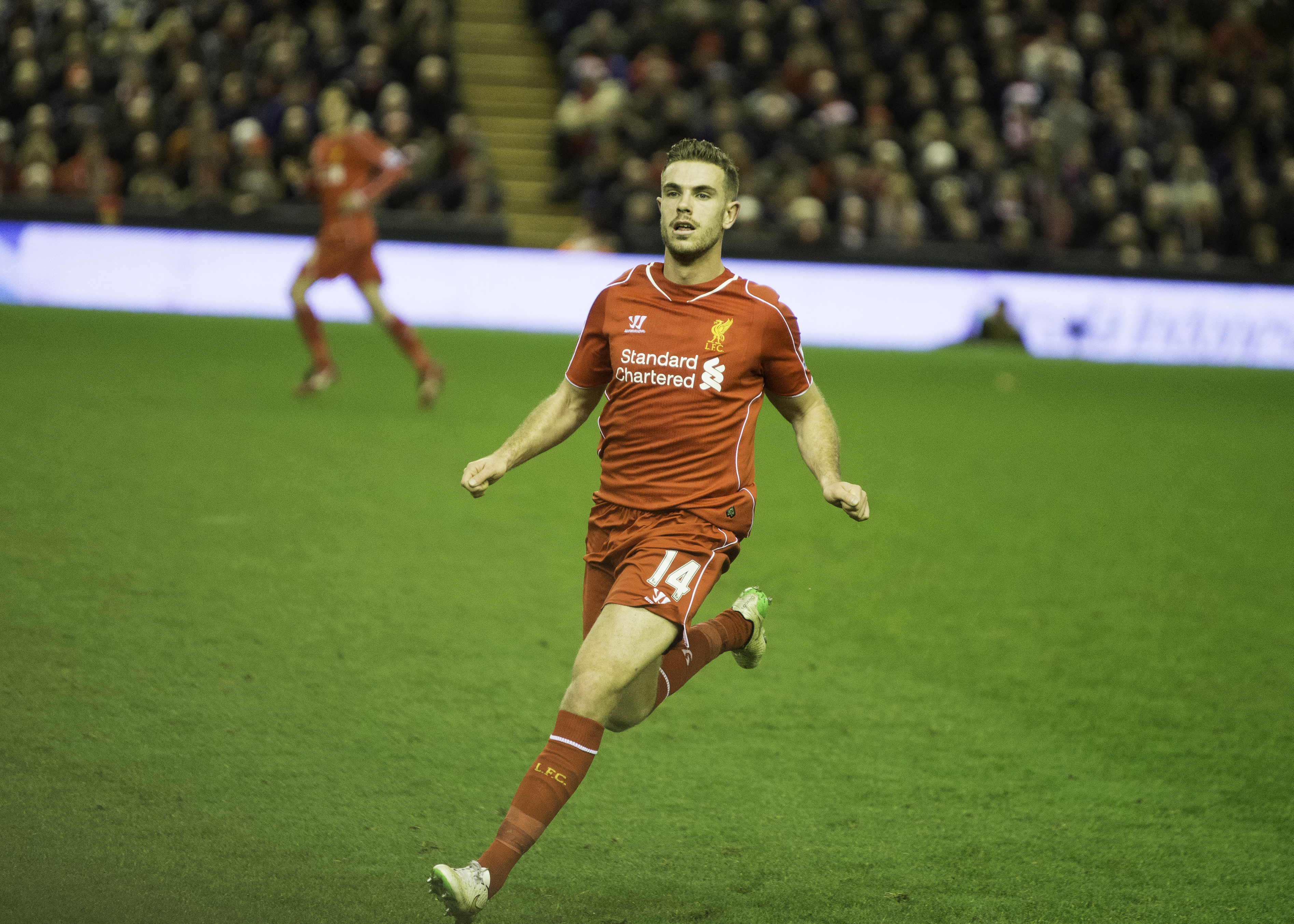 Jordan Henderson playing for Liverpool F.C. in a Premier League match against Arsenal at Anfield on 21 December 2014.